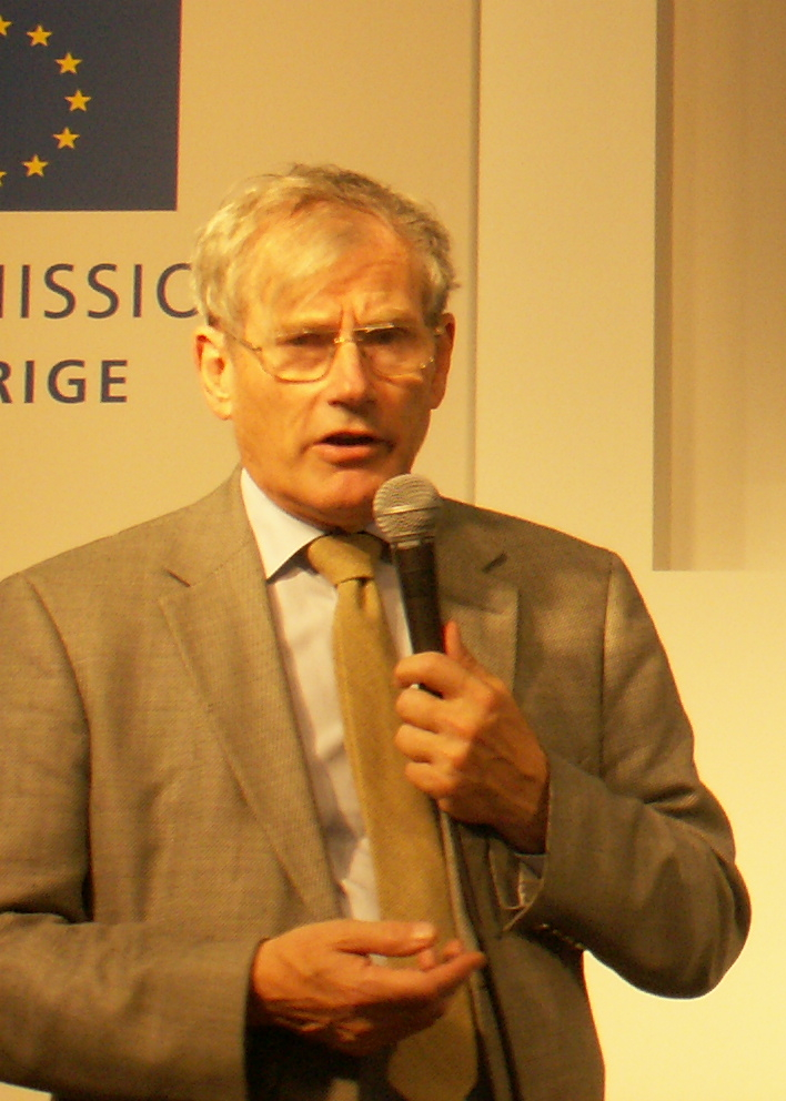 Carl Tham speaking at the Göteborg Book Fair, September 2011.